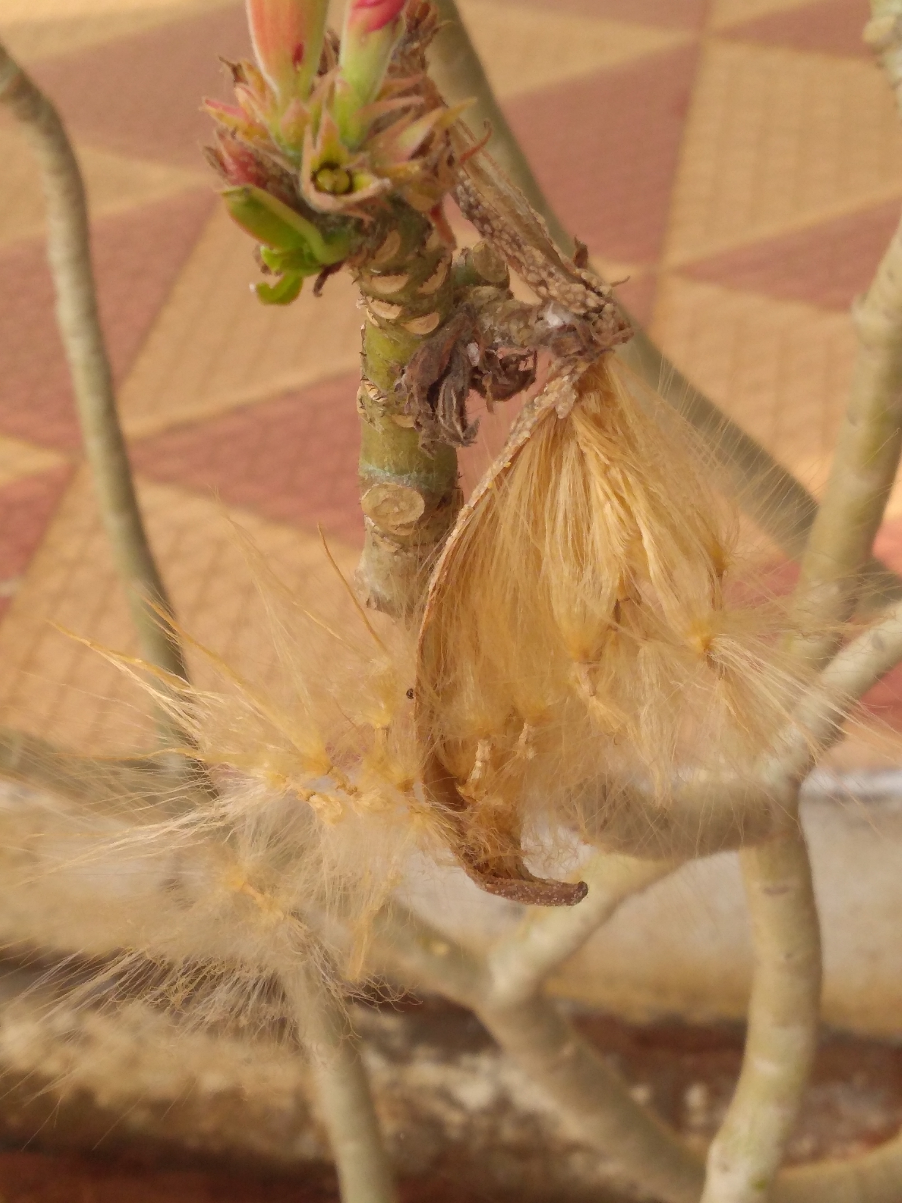 Bursted Adenium seeds